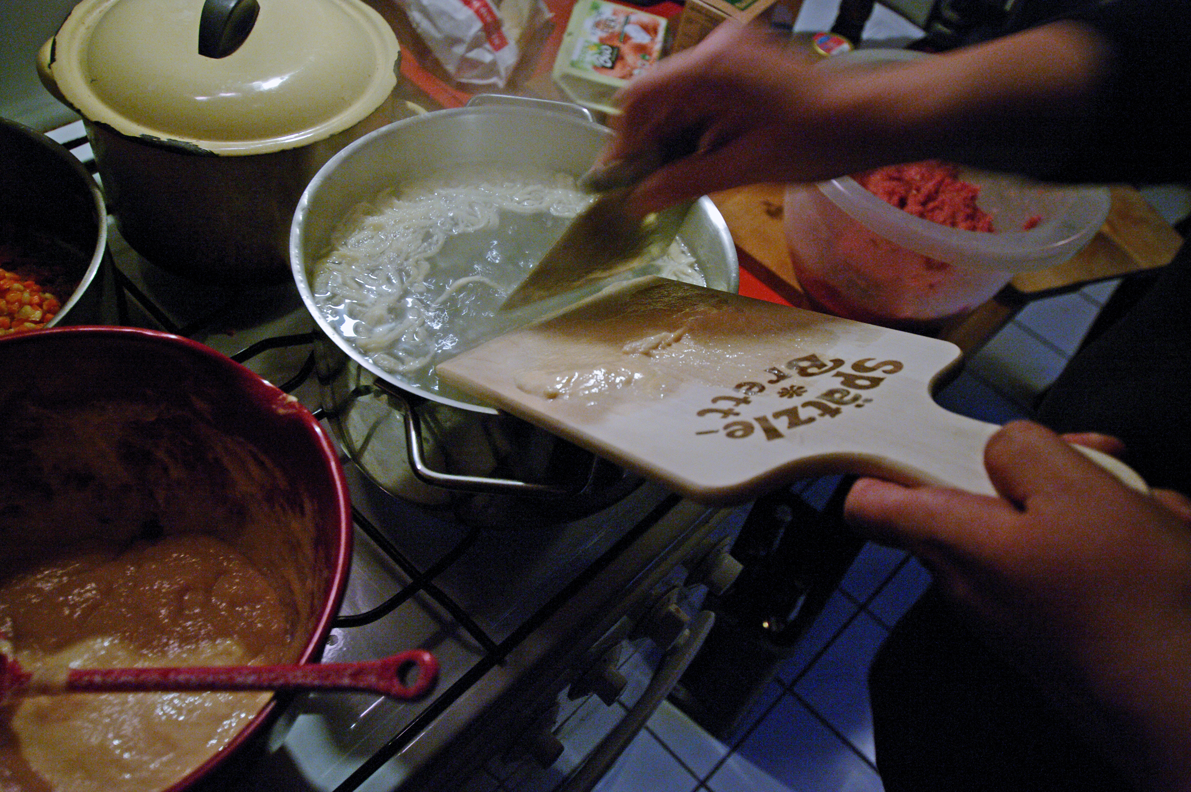 Spätzleschaben anlässlich des Redaktionstreffens Essen und Trinken